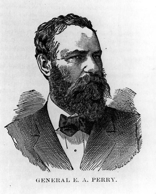 Engraved portrait of General Edward Aylsworth Perry (March 15, 1831 – October 15, 1889). Born in Massachusetts, he was a lawyer, private, captain, colonel and general who commanded Florida Brigade in Lee's Army of Northern Virginia. Later he served as the 14th governor of Florida.